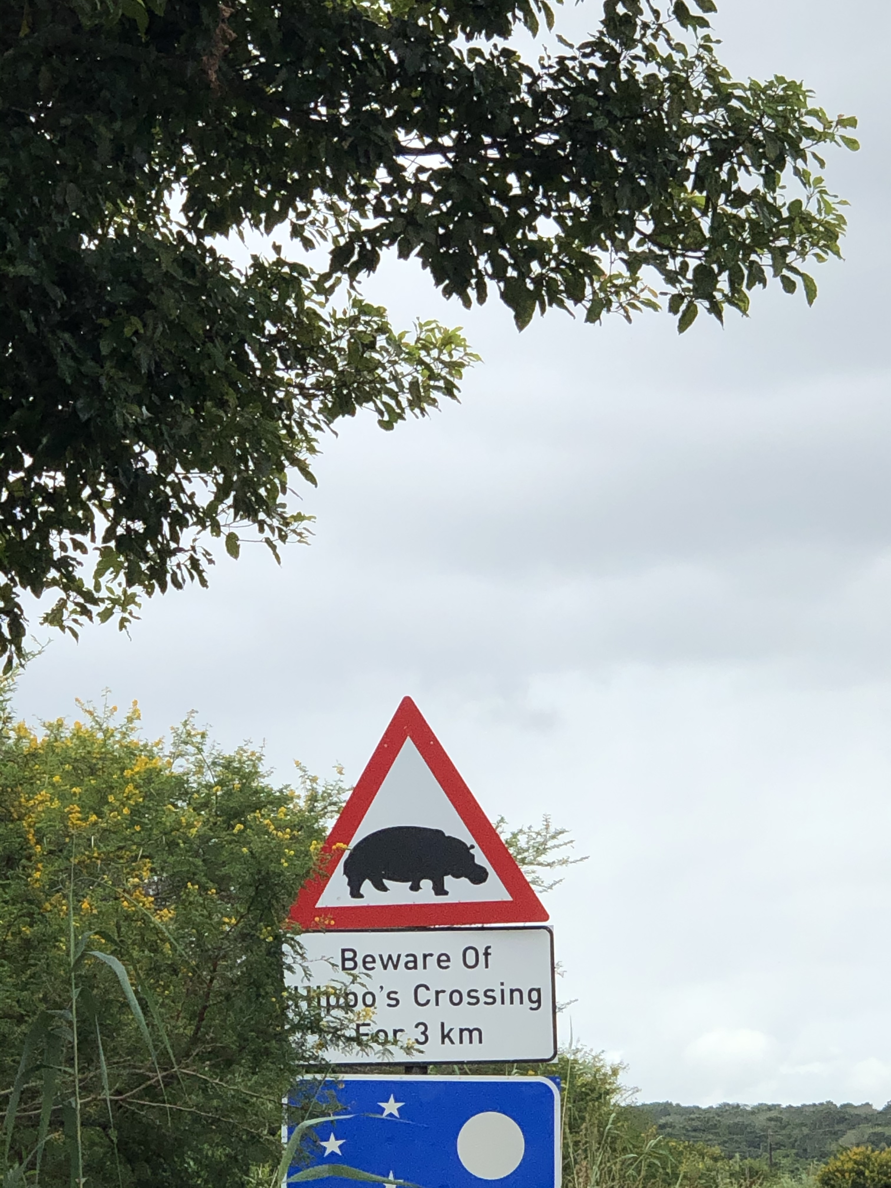 This is an image with the theme "Africa on the Move or Transport" from: South Africa